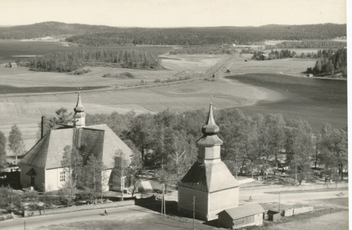 Orivesi old church in Finland